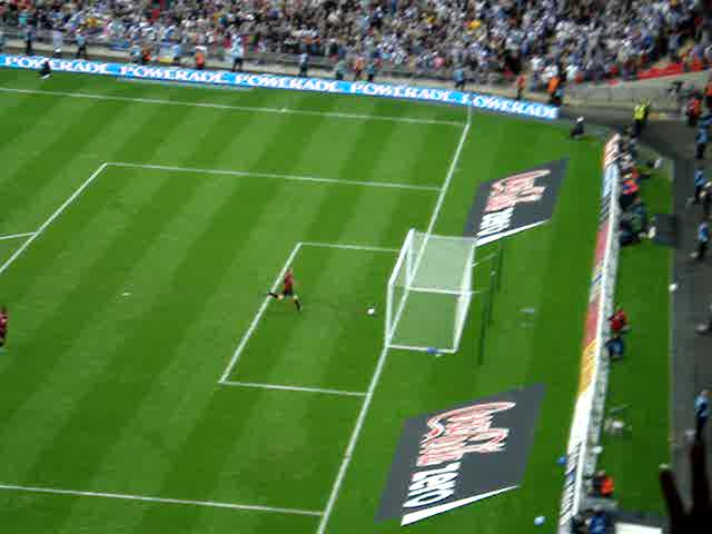 On May 26th 2007 my team, Bristol Rovers, and Shrewsbury Town met at the new Wembley to contest the League Two play off final in front of over 60,000 fans. Rovers won the game 3-1 thanks to a brace from Richard Walker and one from Sammy Igoe, to return to League One after six years in the bottom division. This picture shows the ball entering the net for Rovers crucial third goal, scored by Sammy Igoe in injury time. "The goal is empty now as Igoe breaks, the goal is empty if he slides it.....Sammy Igoe! Is is going to settle it? He has done! Bristol Rovers are going to be promoted to League One!" - Ian Darke (Sky Sports) "Will he shoot? There it is! Its rolling innnnnnnnnnnn!!!! Its rolling! Division One, football, returns to east Bristol! Incredible!" - Andy Warren (Screen Soccer)